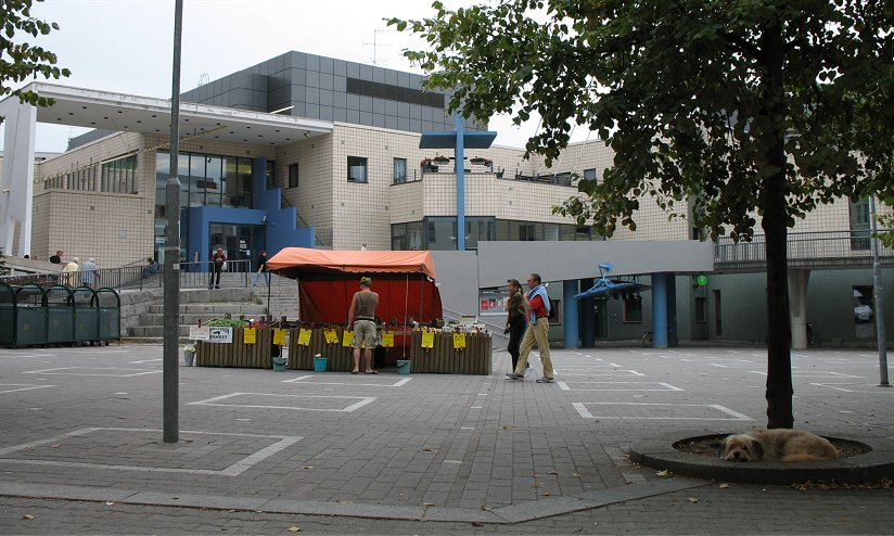 Sitratori square in front of Kanneltalo, the regional culture center of northwestern Helsinki, Finland.